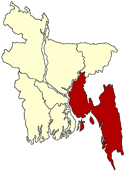 Locator map of Chittangong Division in Bangladesh